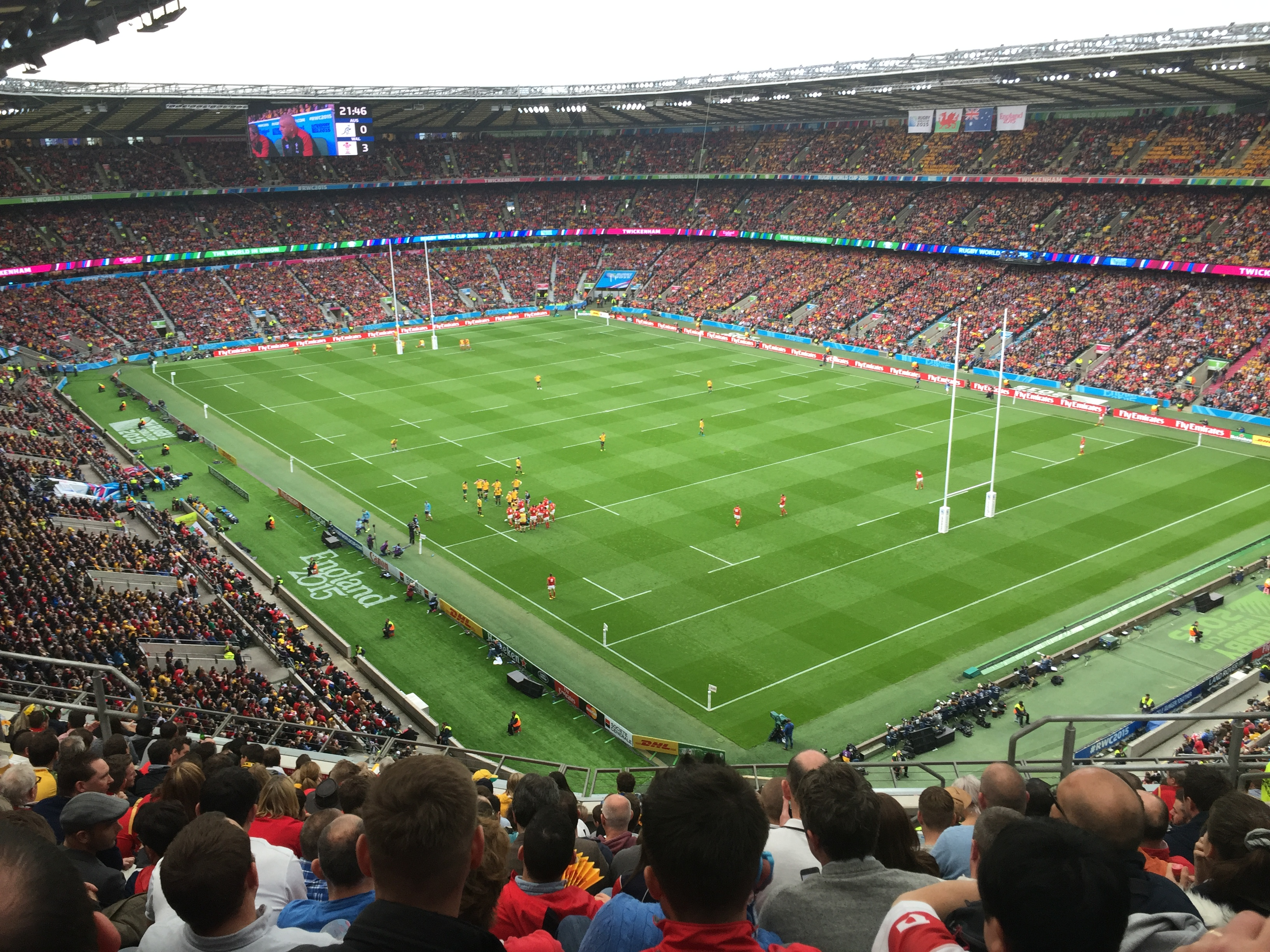 Wales vs. Australia